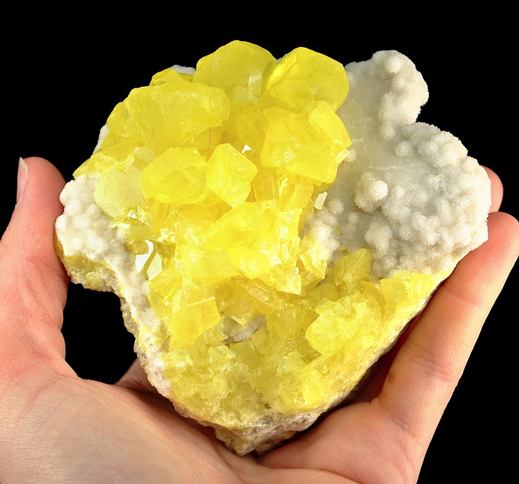 Sulphur, Aragonite Locality: Cozzodisi Mine, Casteltermini, Agrigento Province, Sicily, Italy (Locality at ) Size: 9.2 x 8.1 x 5.2 cm. A classic and very showy specimen of gem-like, bright canary-yellow sulphur crystals covering aragonite matrix from the Cozzodisi Mine of Sicily. Excellent, old-time material from the Robert Fender Collection. Vivid pink fluorescence on the aragonite.